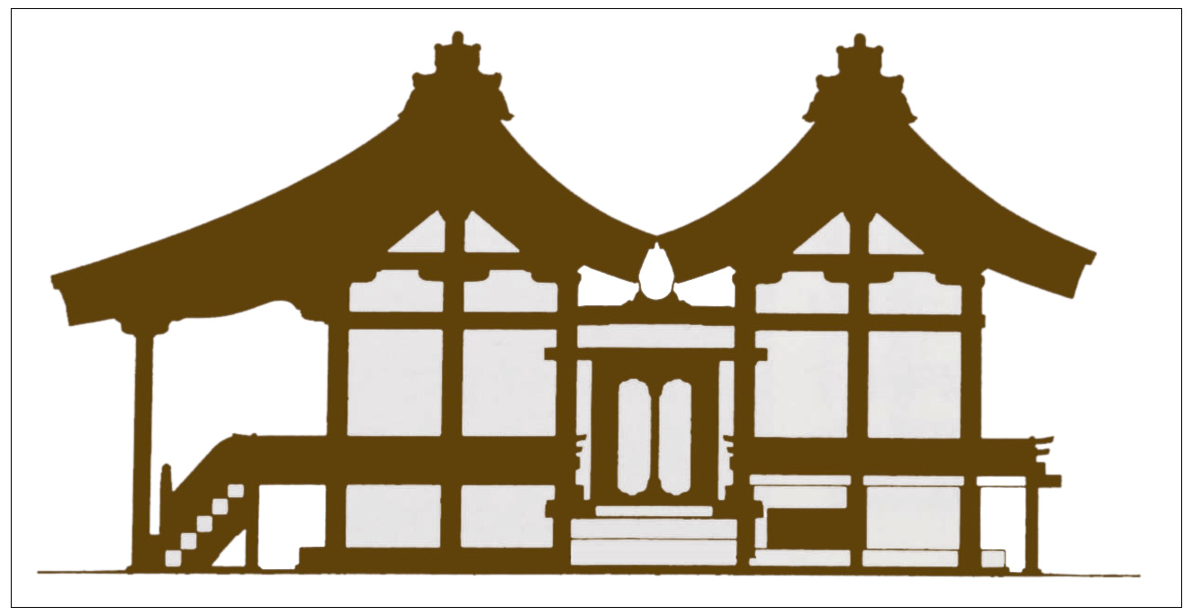 An illustration describing schematically the structure of a Hachiman-zukuri honden (Iwashimizu Hachiman-gū in this case)